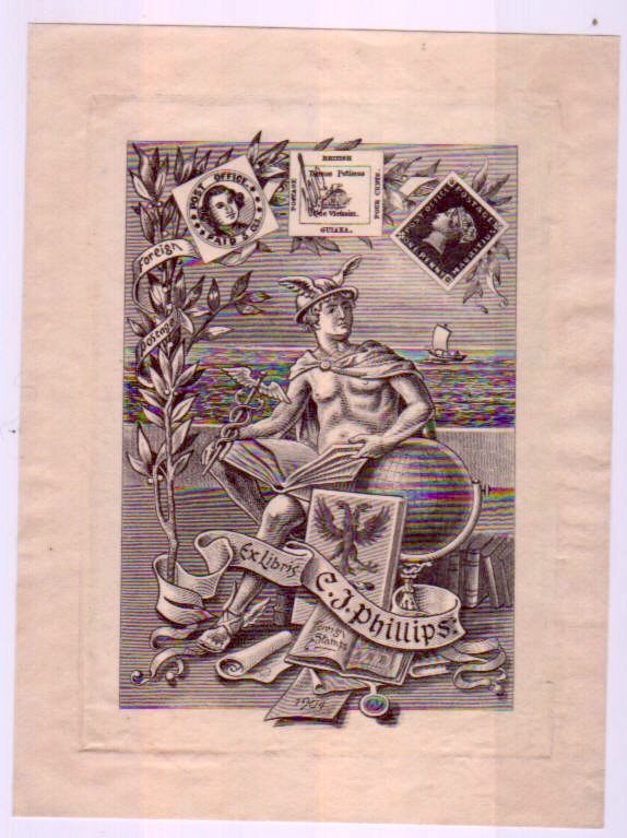 Ex libris of Charles James Phillips